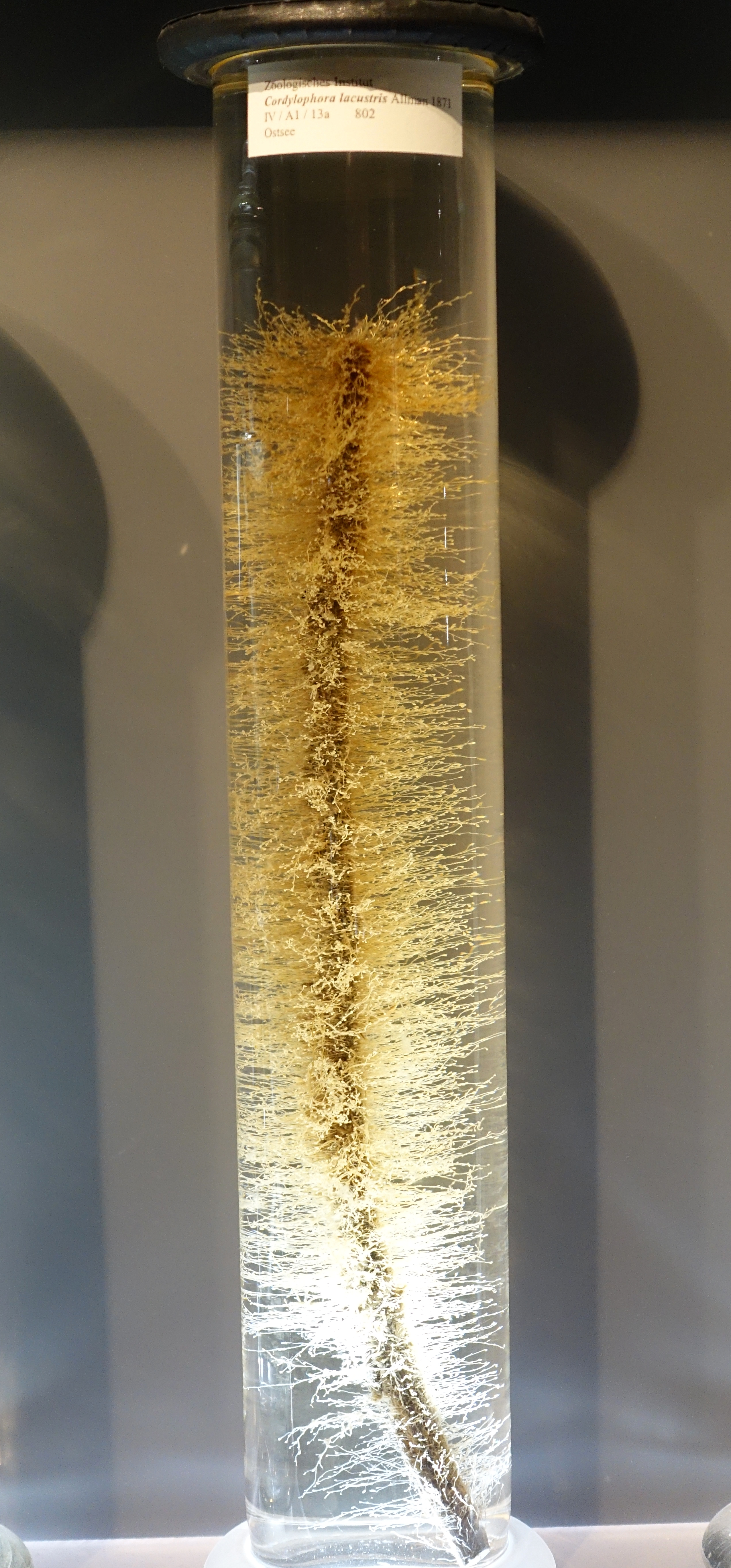 Exhibit in Museum für Naturkunde, Berlin, Germany.